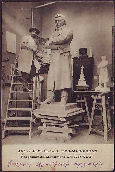 Sculptor AndreasTer-Maroukian in his studio with a sculpture of Khachatur Abovian (Parise, 1910)